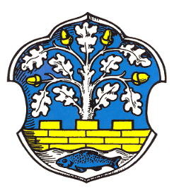 Coats of arms of the Prussian district of Hoyerswerda (1826–1845) and again in the Saxonian district of Hoyerswerda (1990–1995)